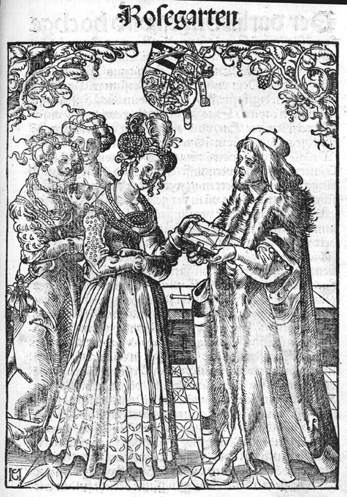 The author presents the book to Katharina von Braunschweig-Lüneburg (1488–1563)